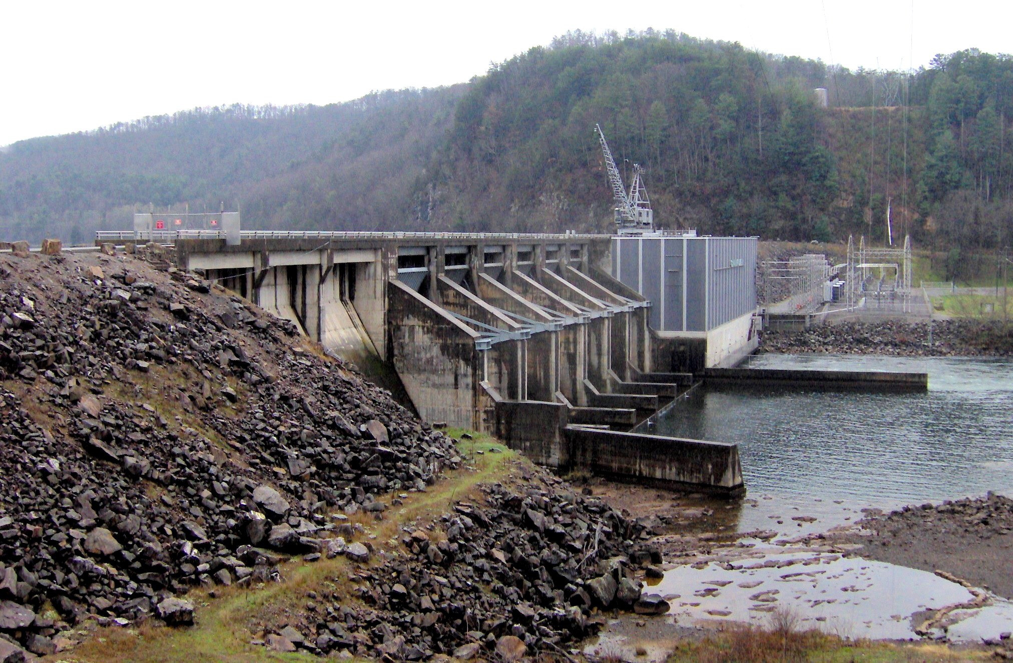 Chilhowee Dam near Maryville, Tennessee, in the southeastern United States. The dam, which impounds part of the Little Tennessee River, was built by the Aluminum Company of America in 1956-1957.